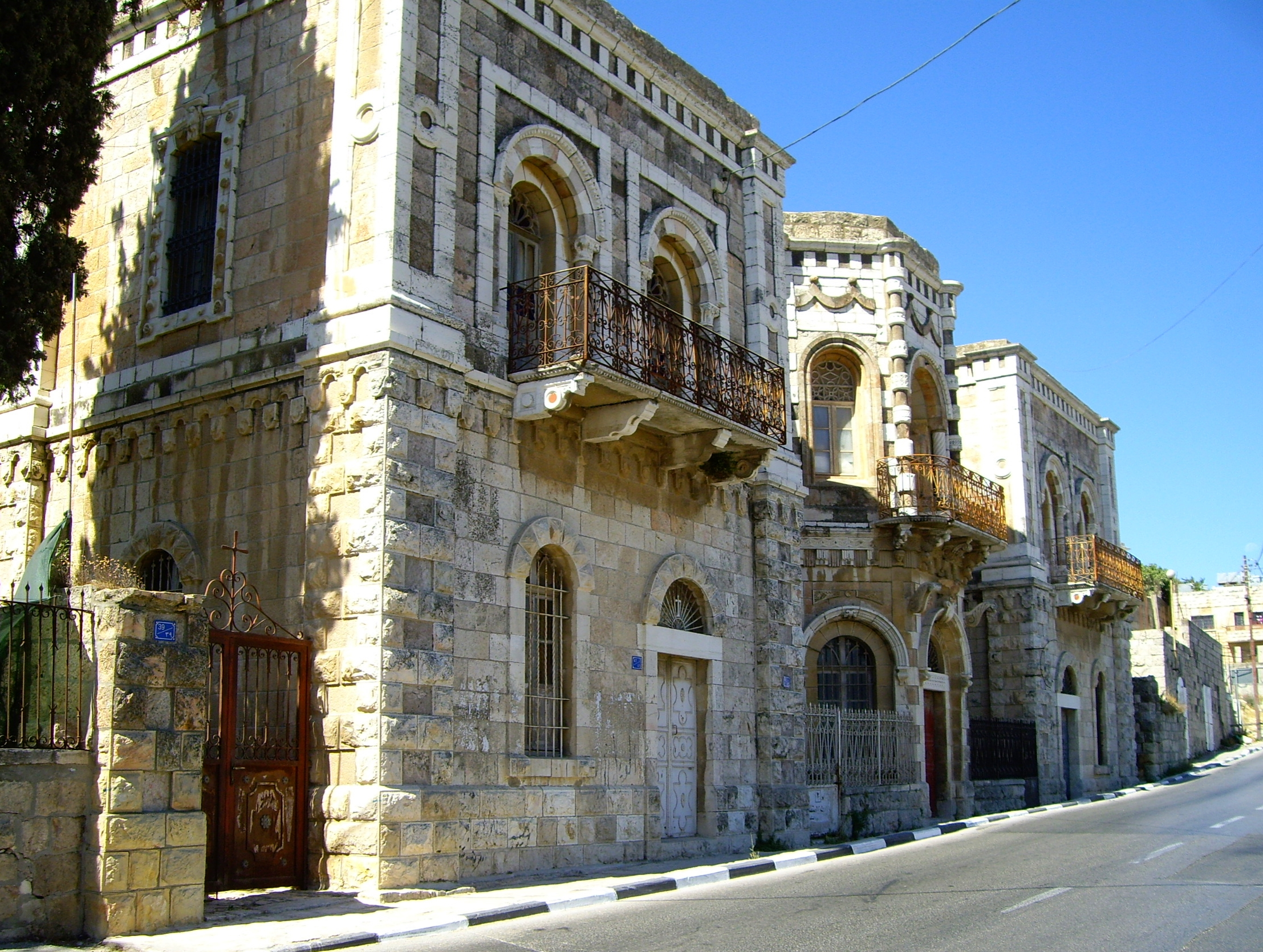 Historical Building in Beit Jala - Building with cross on the door, presumably a christian institution, Beit Jalla IMGP6349 Jerusalem